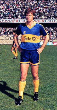 Claudio Marangoni during his first matches in Boca Juniors